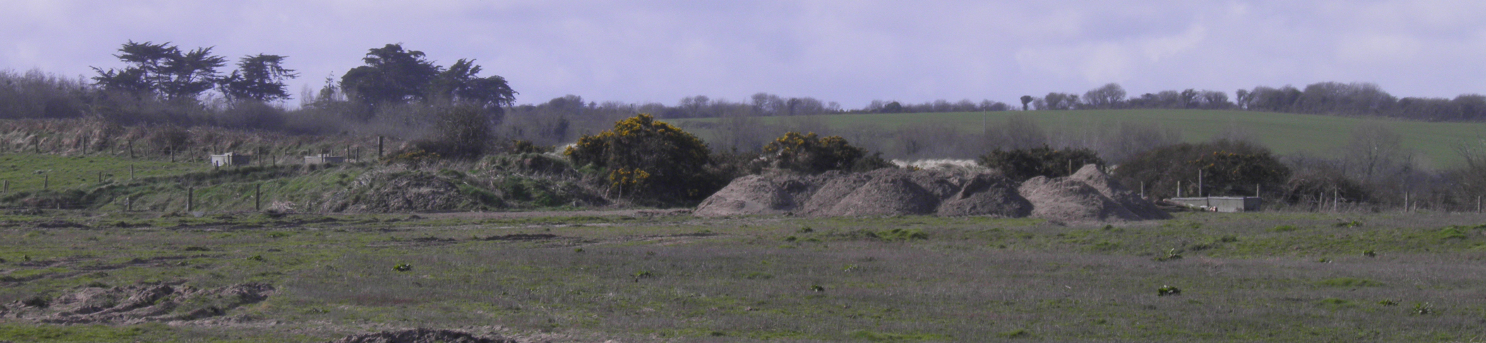 Photograph taken at the beach near Kilmuckridge, County Wexford in Ireland showing part of the damaged area, cropped for size reasons. Water troughs, weeds, dung and contaminated sand/gravel remained on-site and are due to be removed by order.